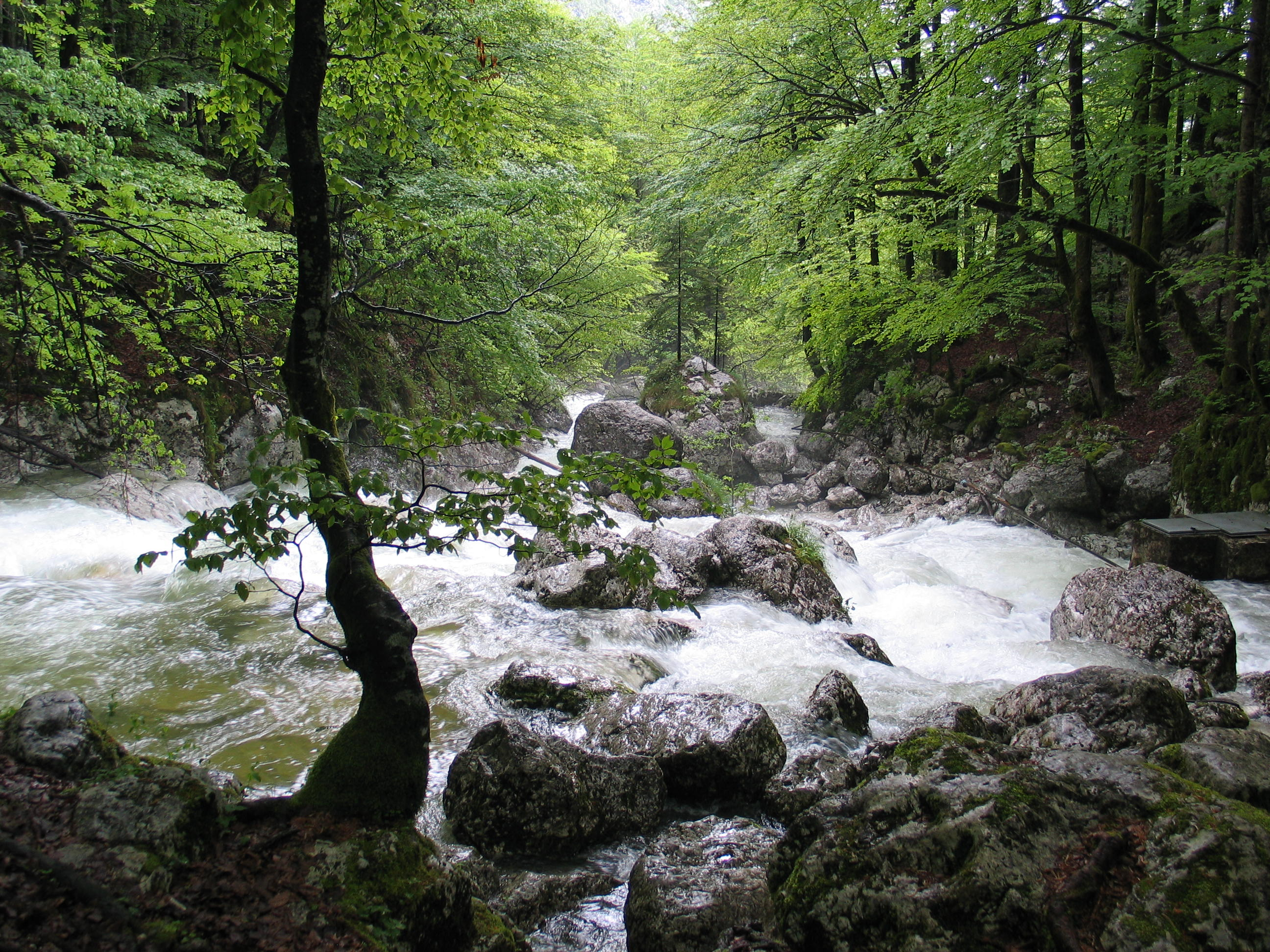 Upper Sava Bohinjka.